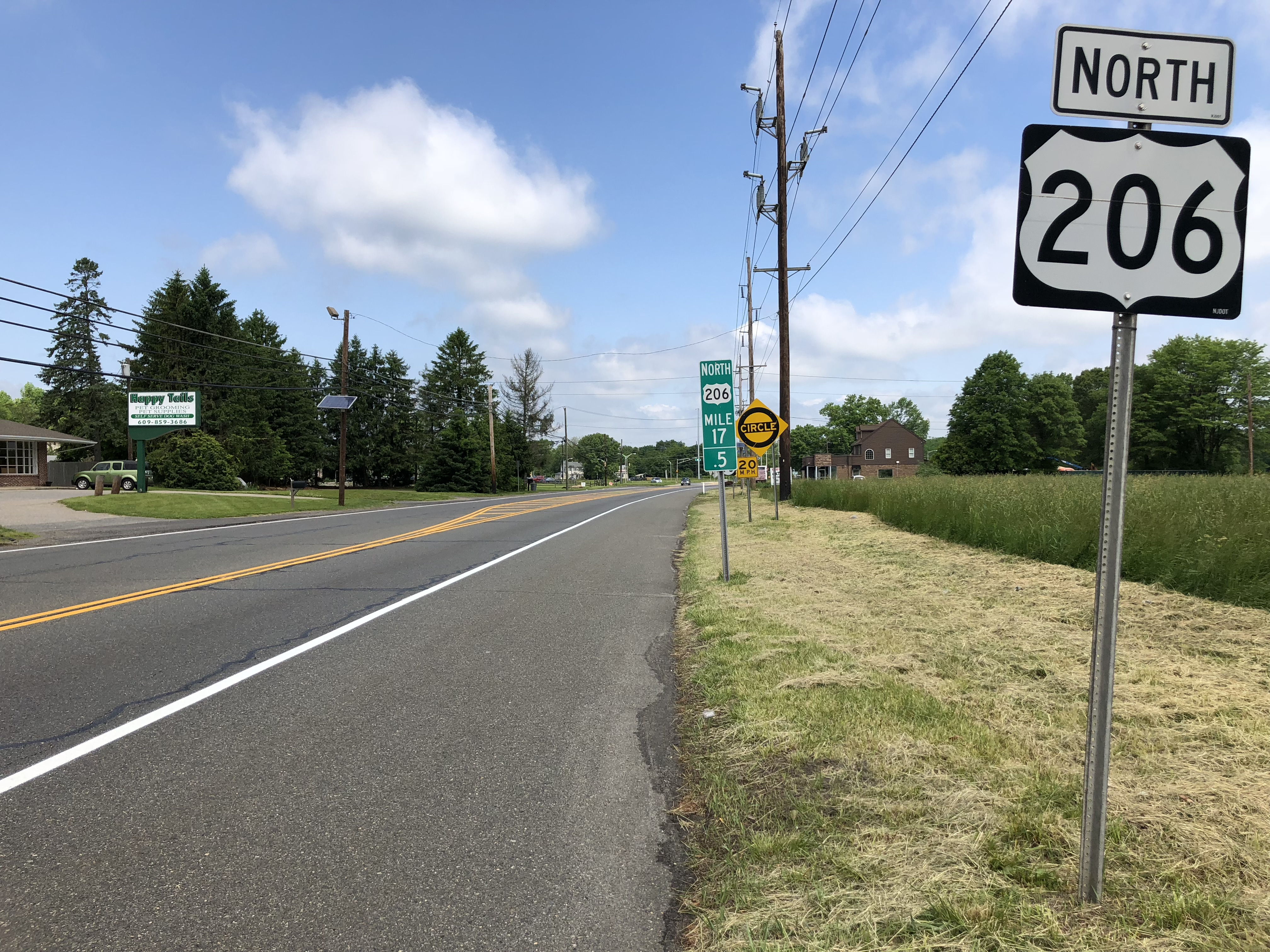 View north along U.S. Route 206 at Allentown Road in Southampton Township, Burlington County, New Jersey